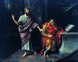 "David und Natan" by Louis Counet